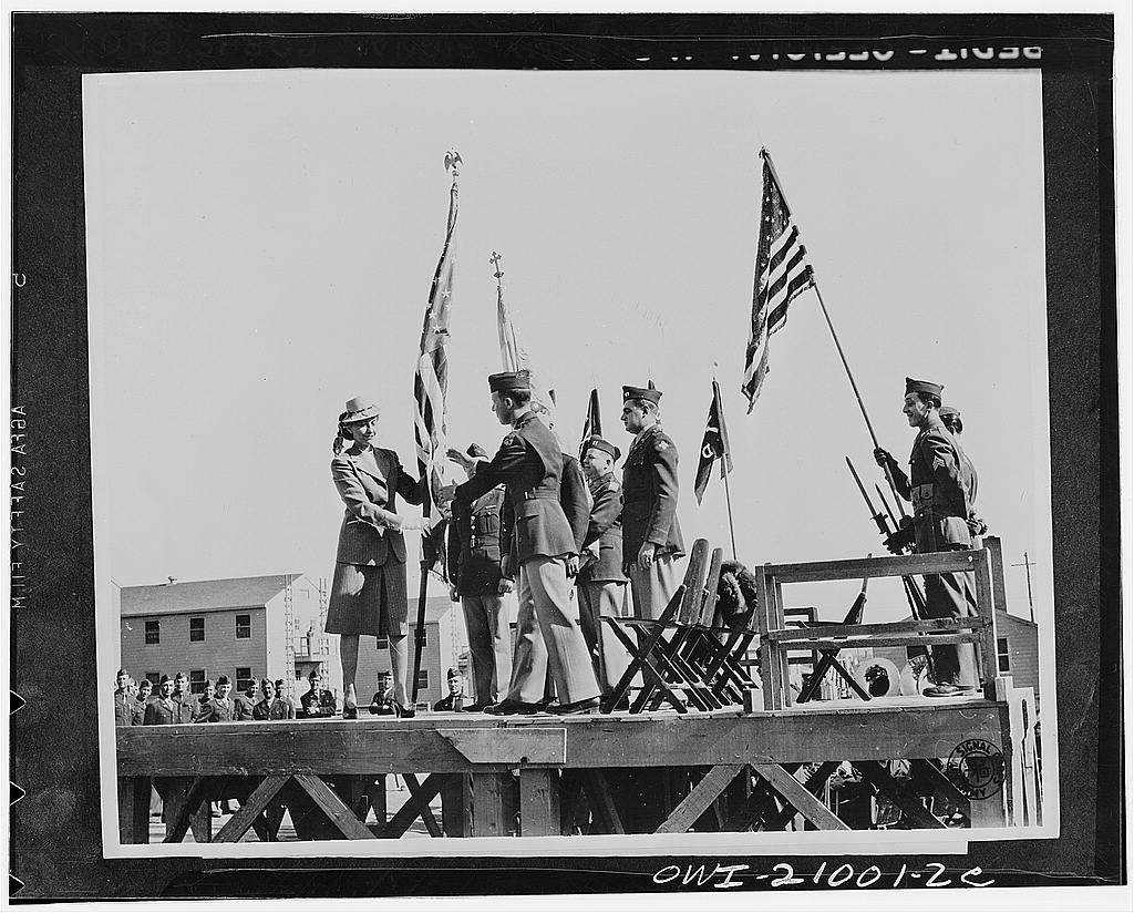 Camp Carson, Colorado. The American flag is presented to Major Peter D Clainos, Commanding officer of the 122 Infantry Greek battalion by Mrs. Clainos on behalf fo the Greed-Americans of the Rocky Mountain region. The presentation was made at the battalion's activation ceremonies Created / Published 1943 Transfer; United States. Office of War Information. Overseas Picture Division. Washington Division; 1944 No known restrictions on images made by the U.S. government; For information, see U.S. Farm Security Administration/Office of War Information Black & White Photographs